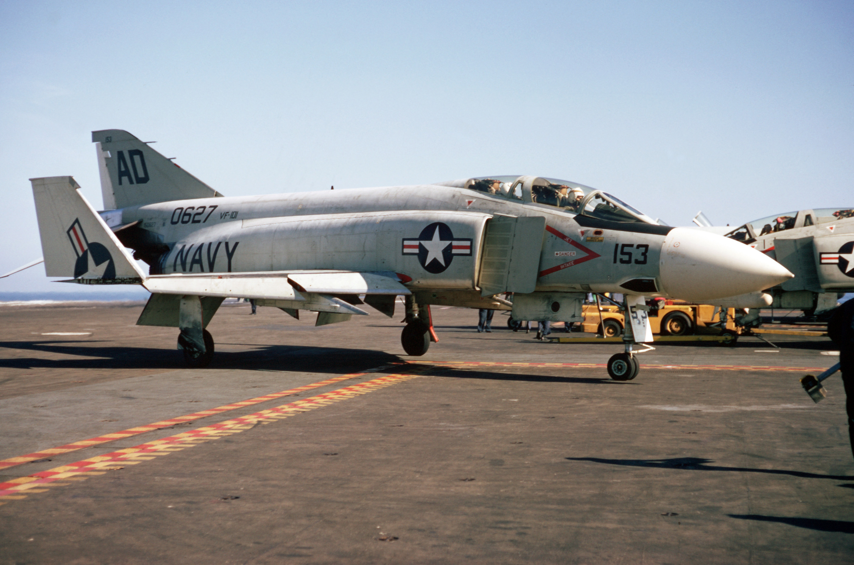 A U.S. Navy McDonnell F-4B-14-MC Phantom II (BuNo 150627) aircraft of Fighter Squadron 101 (VF-101) "Grim Reapers" taxis on the flight deck of the aircraft carrier USS America (CVA-66), in 1967. The F-4B 150627 flew into ground in heavy fog at Marine Corps Station El Toro, California (USA), then became briefly airborne, the crew ejected and the plane crashed into a car park on 30 November 1973.